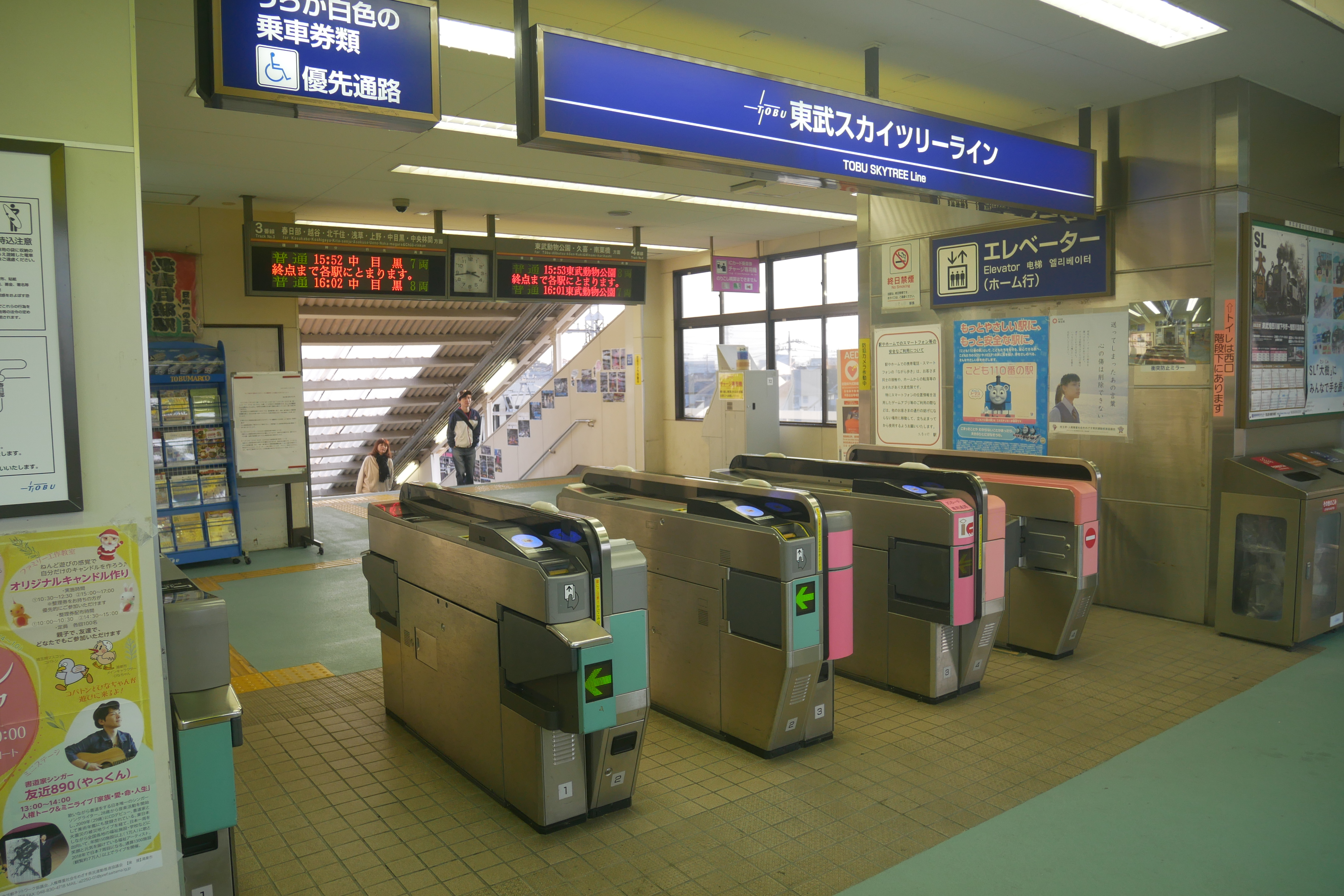 Kita-Kasukabe Station ticket gates (北春日部駅の改札)